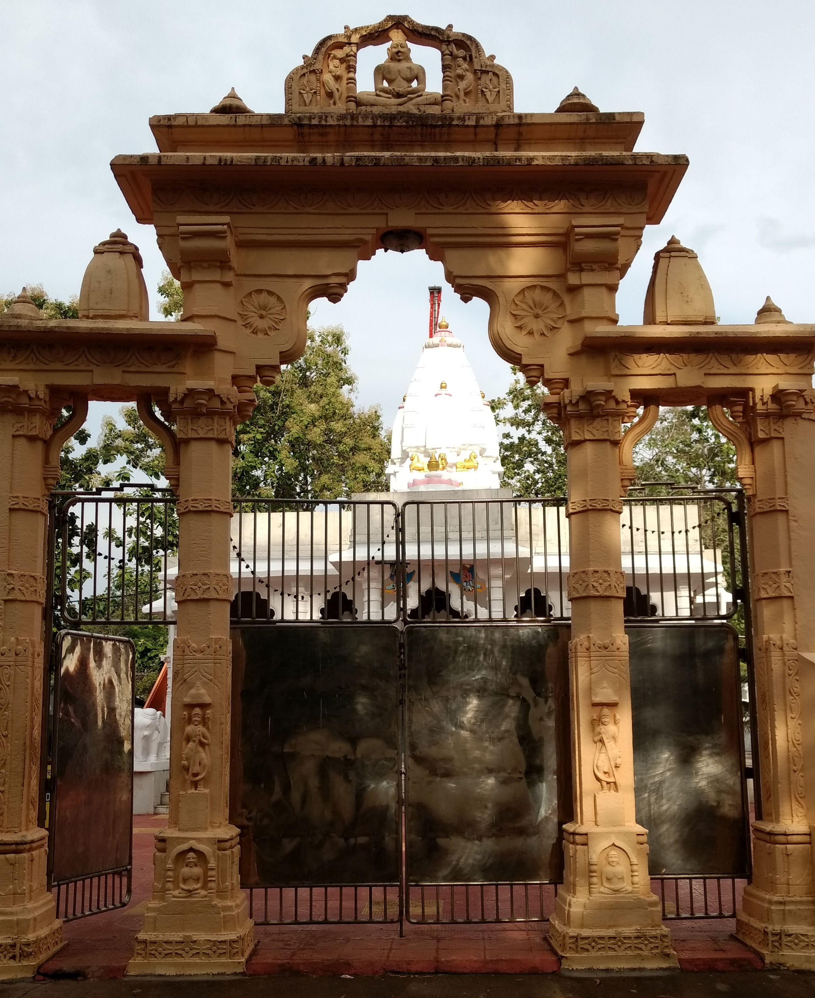 Entry gate of Jain temple, Alappuzha, Kerala